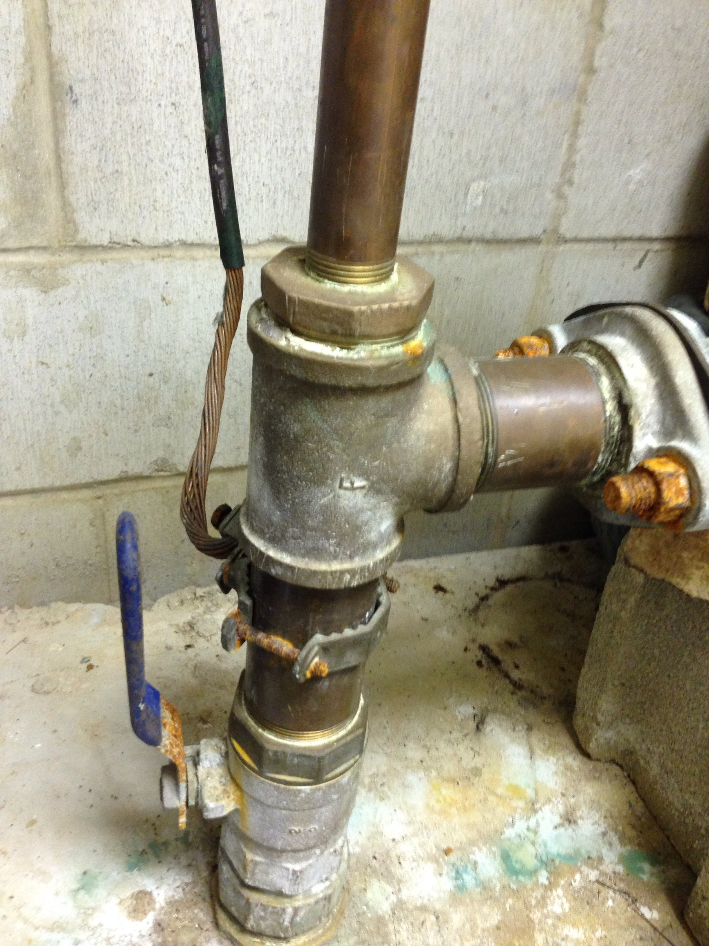 A grounding system that uses metal water pipe. A grounding electrode conductor is connected to a metal water pipe near the underground point of entrance.